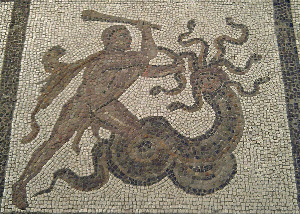 Hercules and the Lernaean Hydra. Detail of The Twelve Labours Roman mosaic from Llíria (Valencia, Spain).